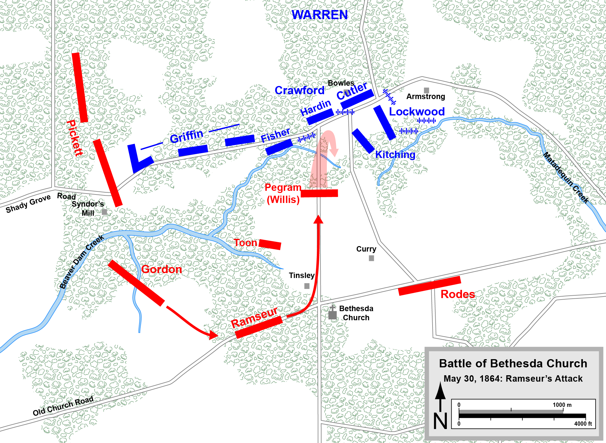 One of two maps of the Battle of Bethesda Church of the American Civil War. Drawn in Adobe Illustrator CS5 by Hal Jespersen. Graphic source file is available at Attribution: Map by Hal Jespersen